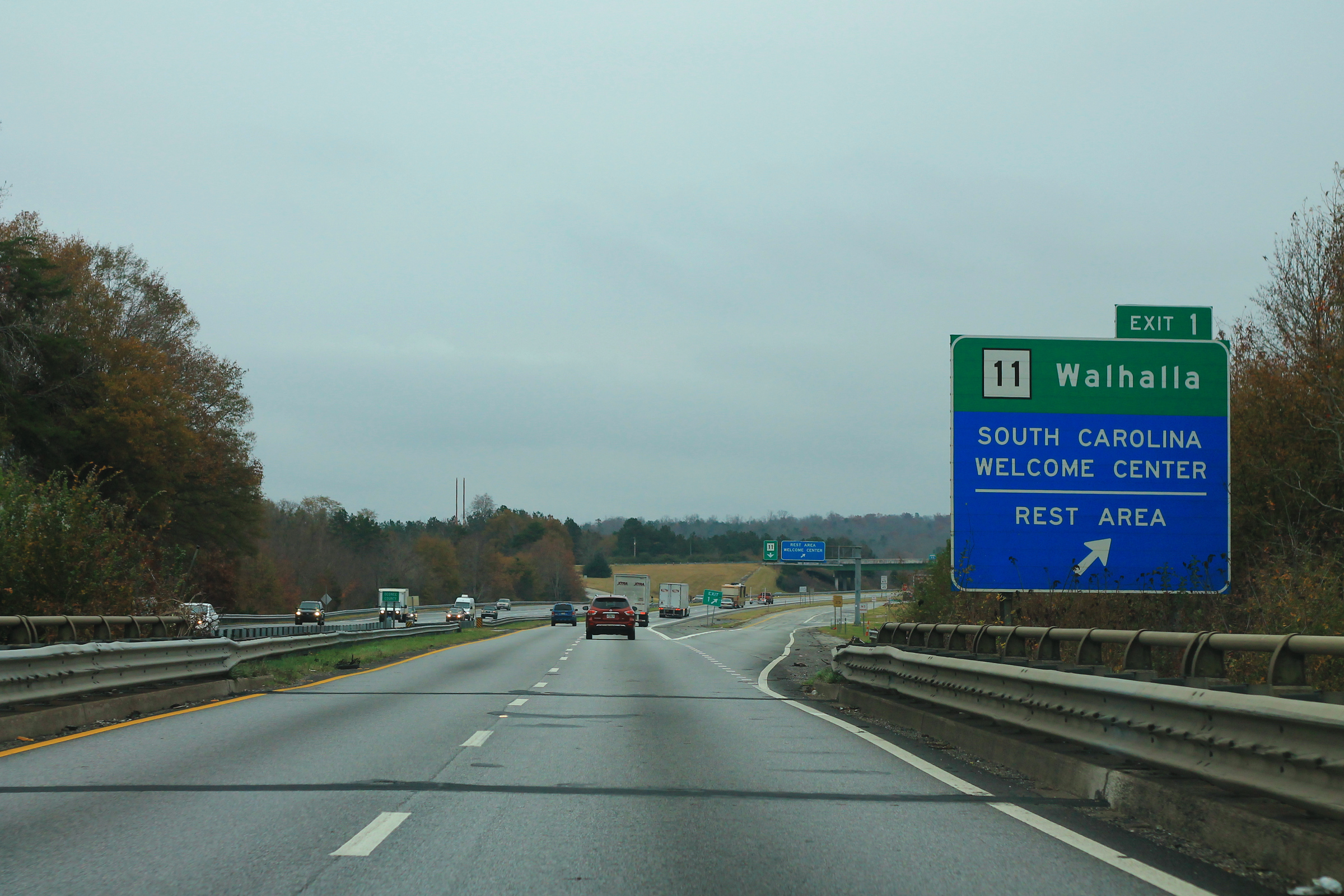 First exit in South Carolina for I-85.